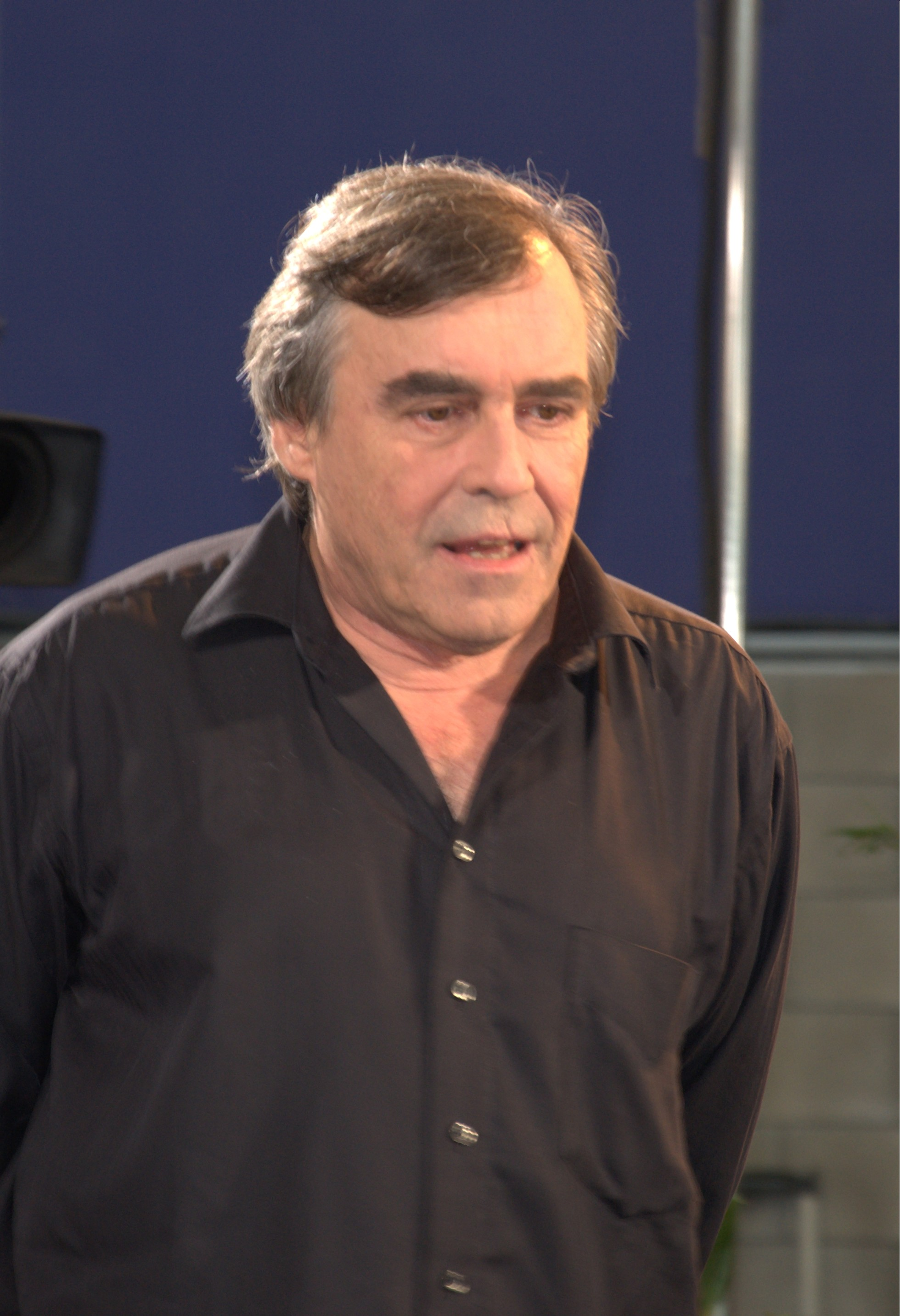 Pierre-Marc de Biasi at the 2012 Mouans-Sartoux Literature Festival.